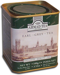 Earl Grey Ahmad Tea.